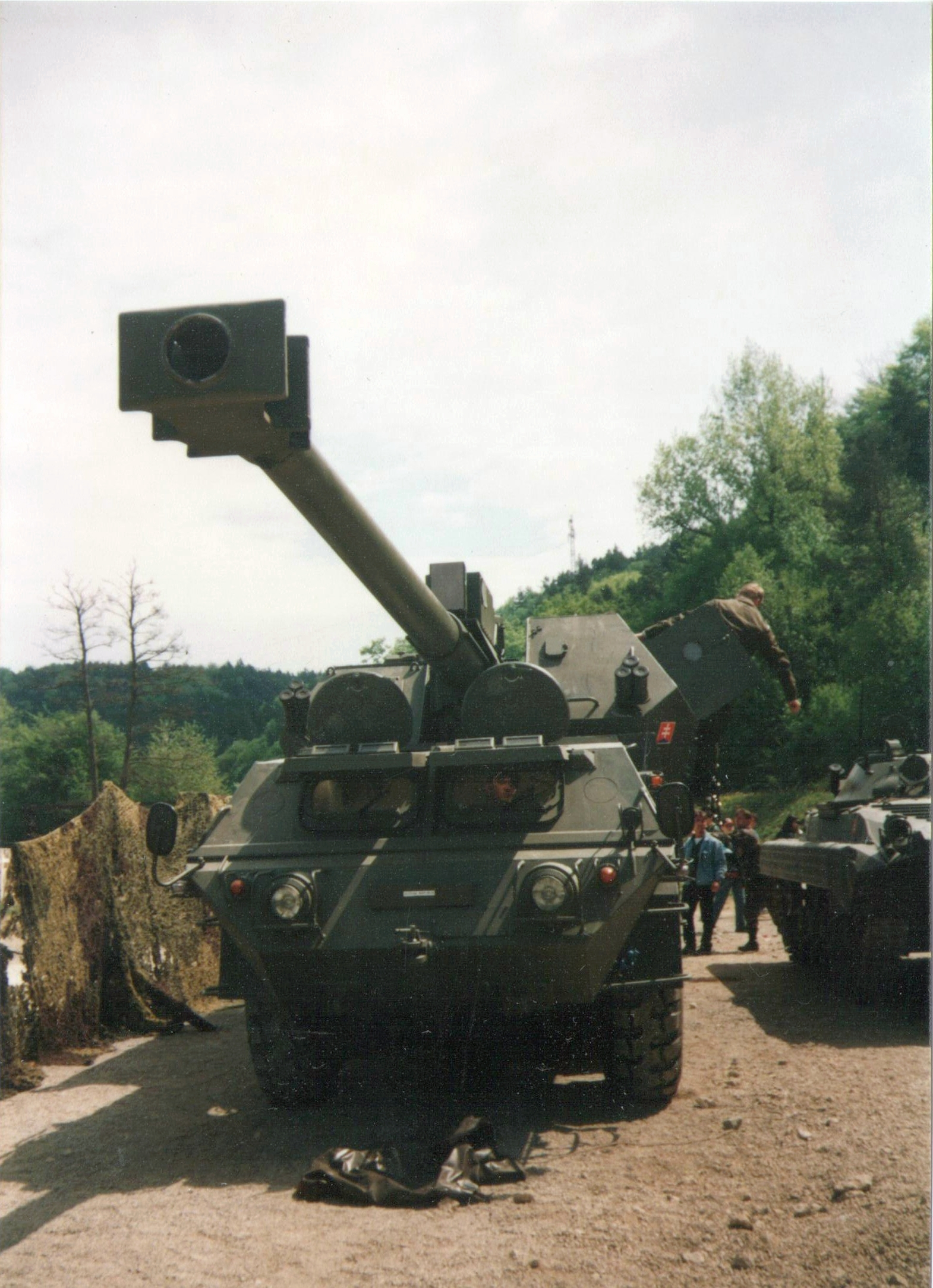 155 mm Self-propelled Gun Howitzer model 2000 Zuzana on military exhibition IDEE in Trenčín, Slovakia.